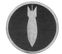 Emblem of the USAAF I Bomber Command (1942)